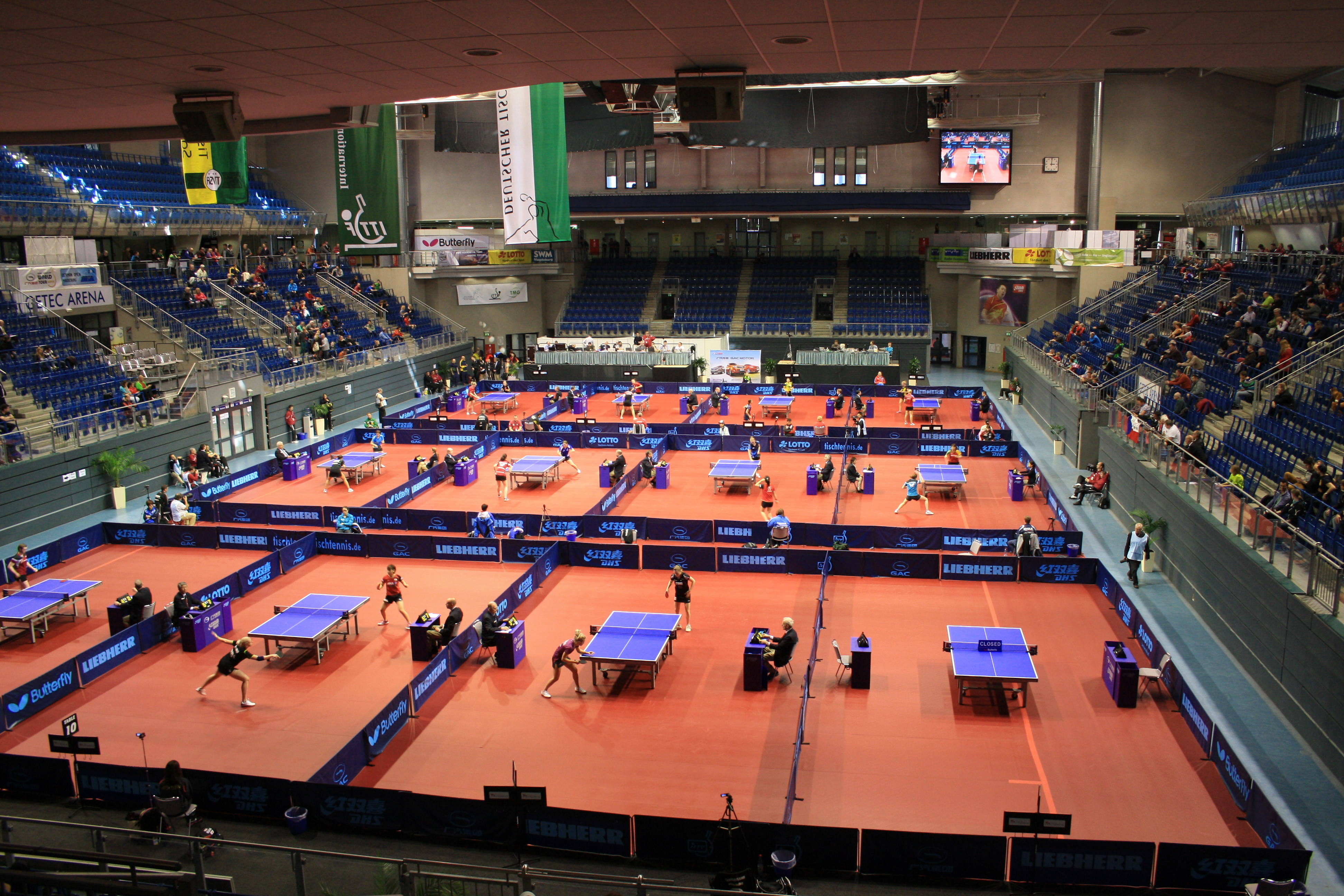 Table Tennis German Open in Magdeburg, Germany